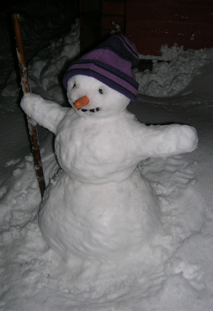 A snowman made and photographed by the uploader on December 23rd 2009 in Kotka, Finland. The nose is made of a carrot and eyes and mouth from coal, as is traditional. I forgot the buttons...